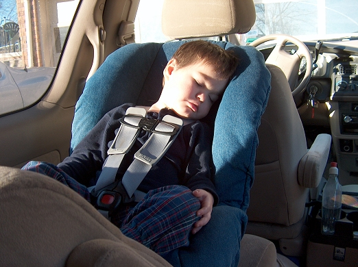 This is my son rear-facing in a britax marathon